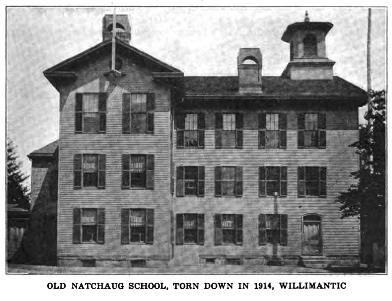 Old Natchaug School, now torn down.